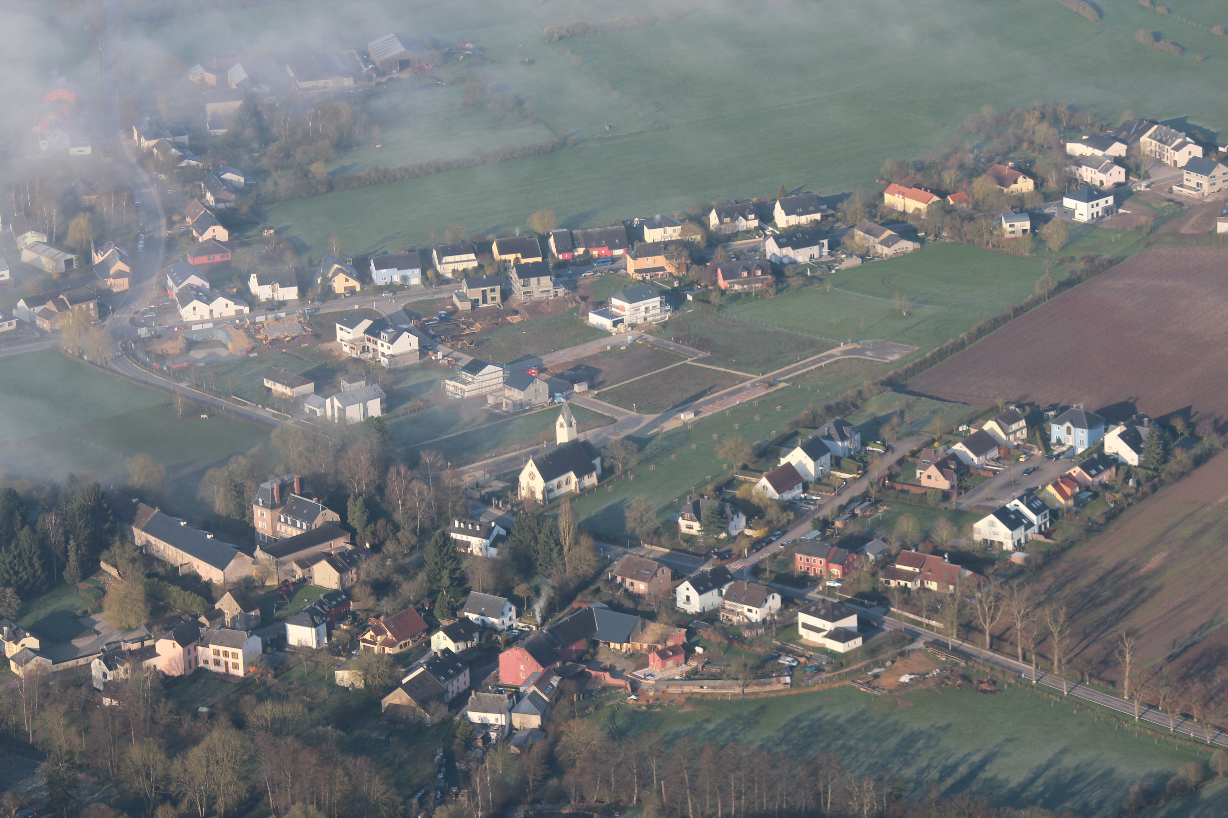 Schrondweiler in morning fog.